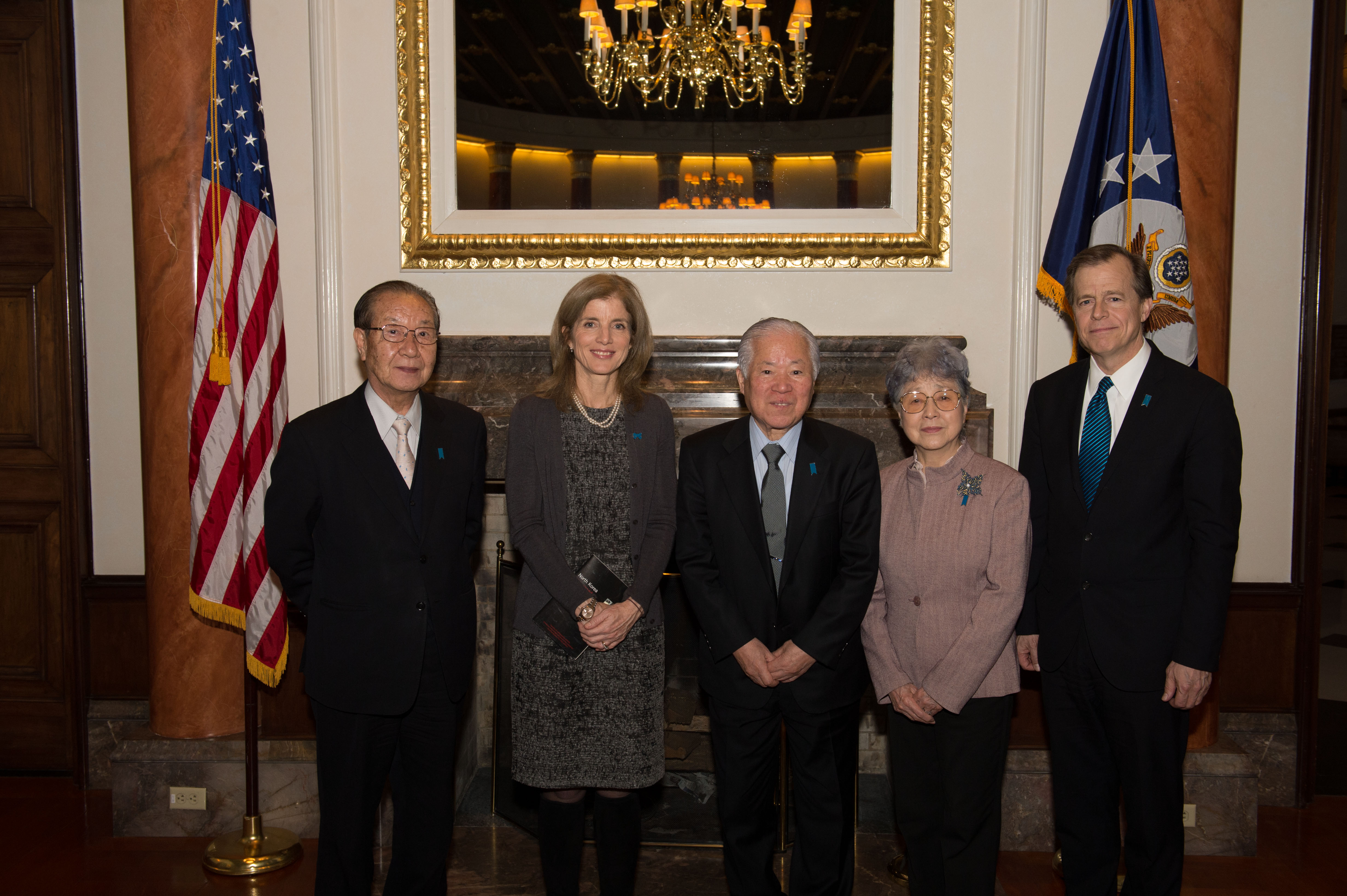 Shigeo Iizuka, President of the Association of the Families of Victims Kidnapped by North Korea, Shigeru Yokota, Member of the Association of the Families of Victims Kidnapped by North Korea, and Sakie Yokota, Member of the Association of the Families of Victims Kidnapped by North Korea, met Glyn Davies, Special Representative for North Korea Policy, and Caroline Kennedy, Ambassador to Japan, at the Ambassador's Residence in Tokyo on January 30, 2014.